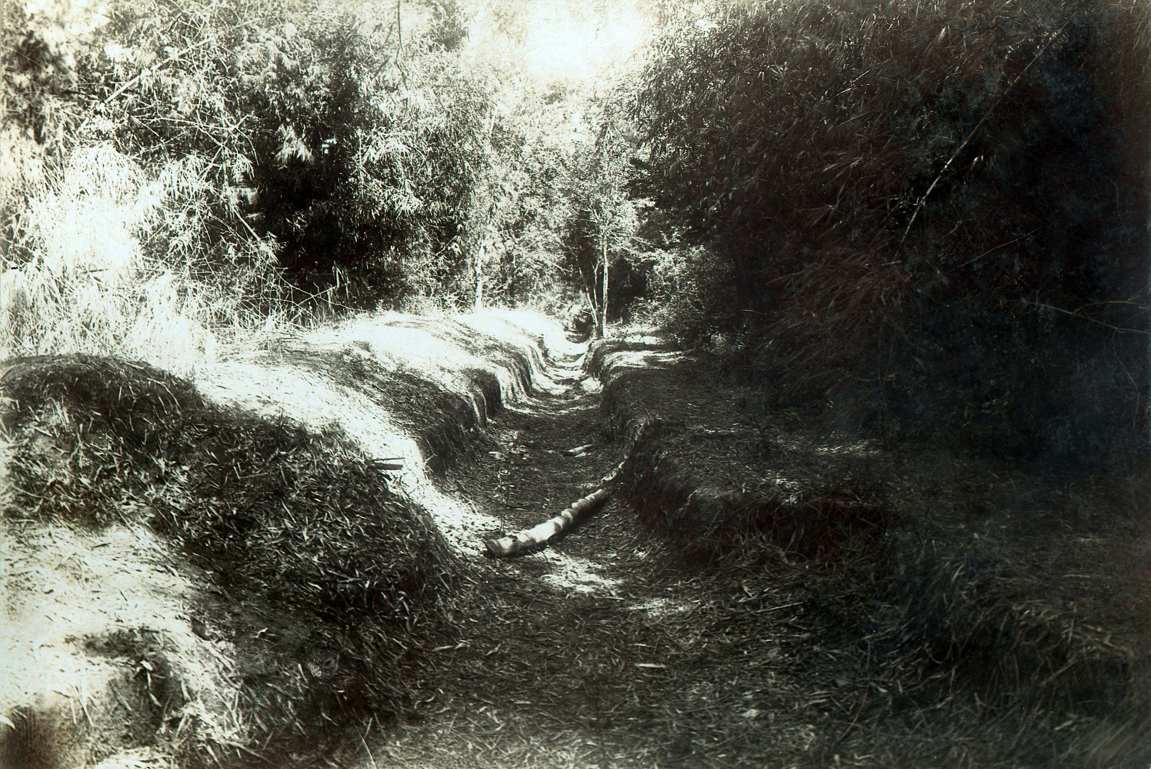 The trenches used by the Filipinos as defense during the Battle of Zapote River in 1899 in the Philippines.